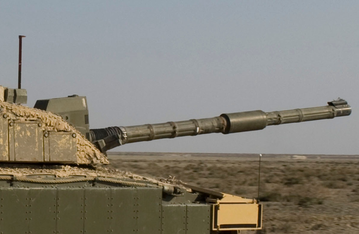 Photograph shwowing L30 gun on British Royal Scots Dragoon Guards Challenger 2 tank in Basra, Iraq.